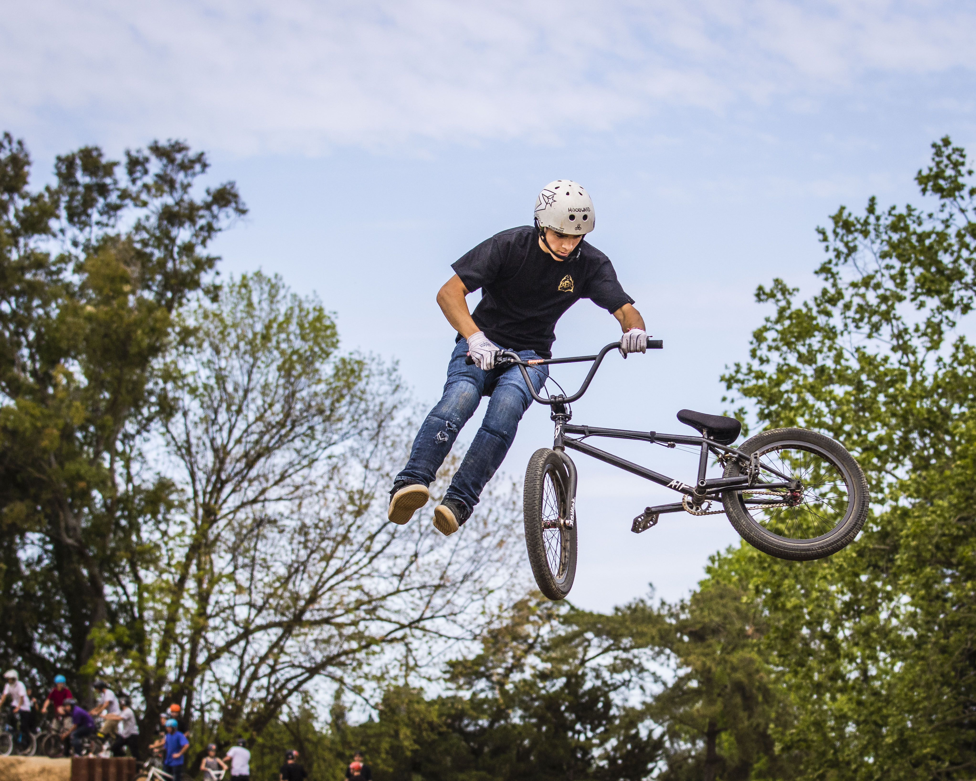 BMX Comp